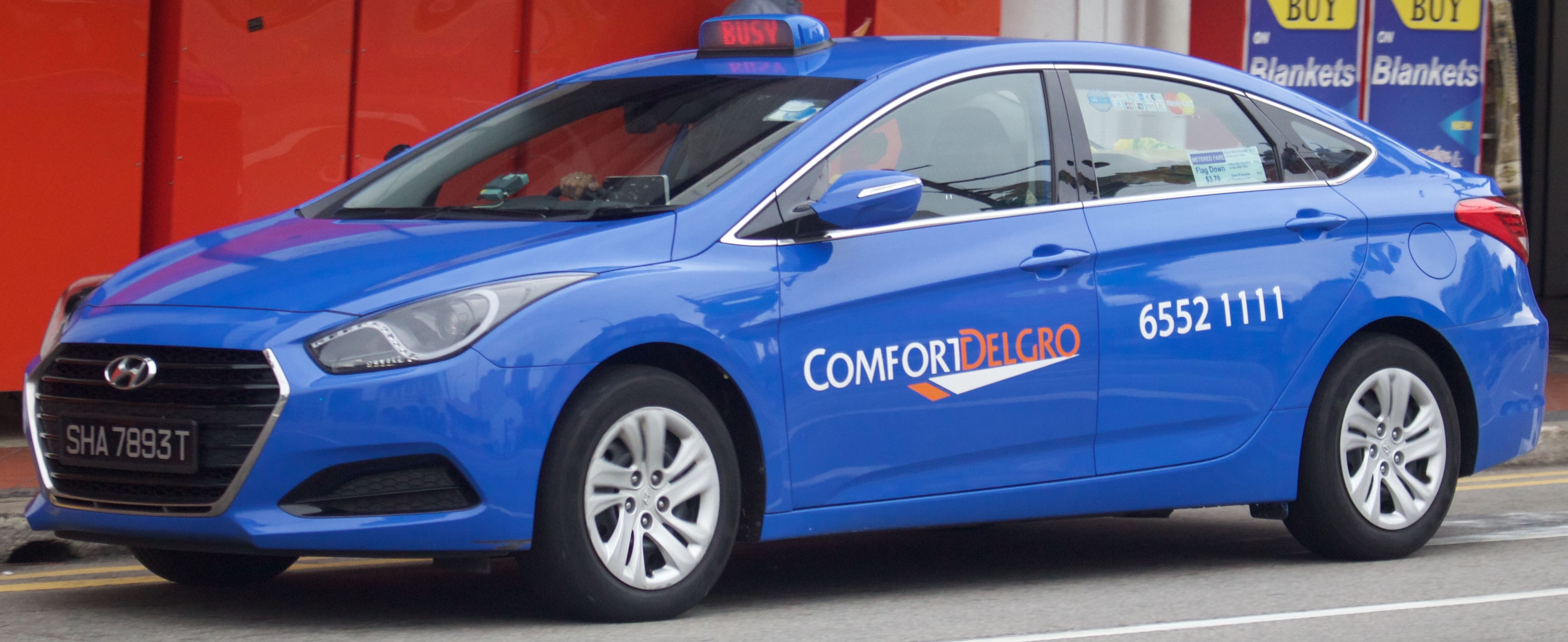 2015 Hyundai i40 (VF2) 1.7 CRDi sedan, Comfort Taxi, photographed in Singapore. Vehicle registration enquiry resultsJurisdictionSingaporeRegistrationSHA7893TChassis codeKMHLB41UMGU075146Engine codeD4FDFU528770Year of manufacture2015